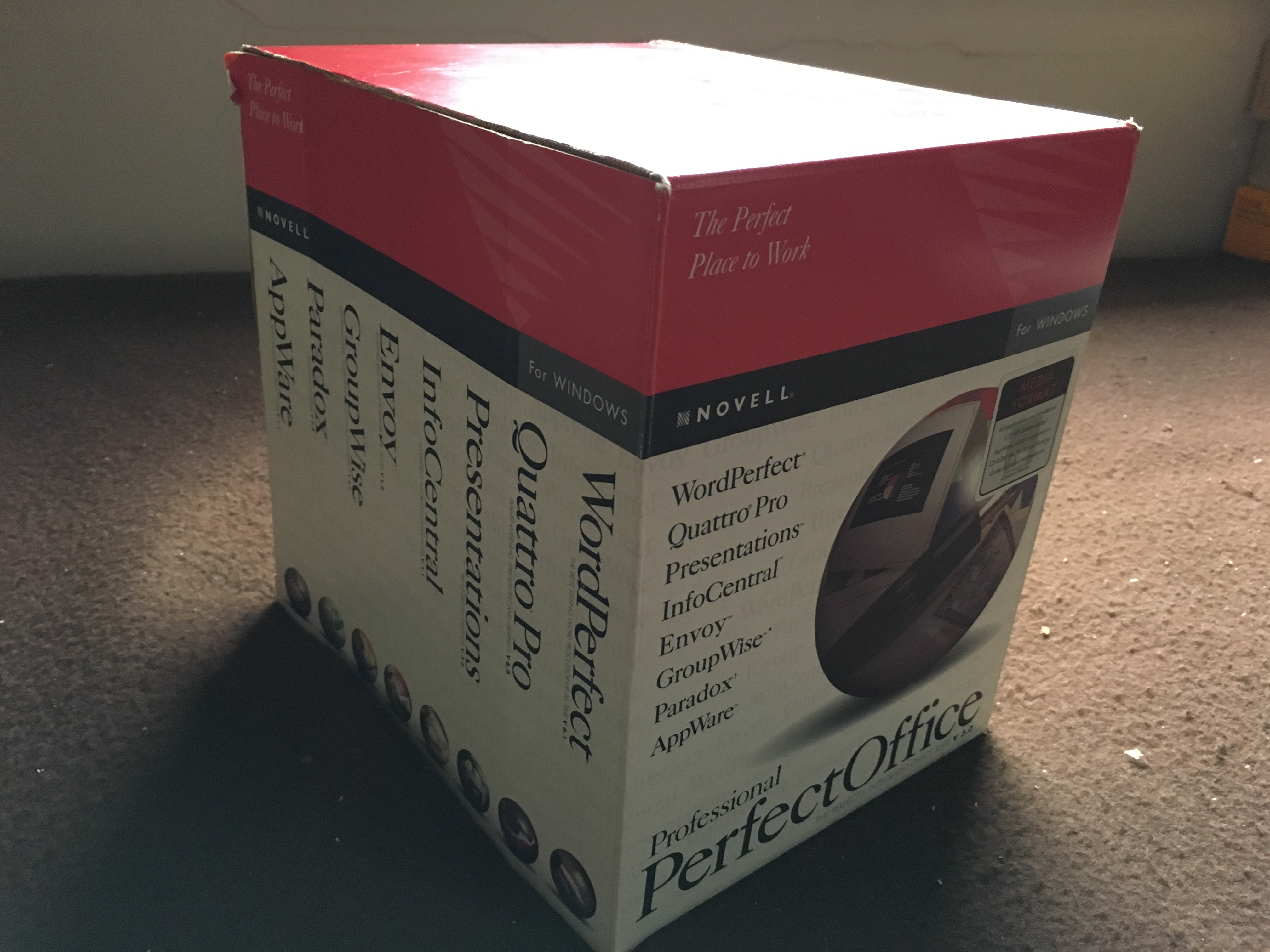 Novell's PerfectOffice suite, Professional edition, version 3.0, for Microsoft Windows. Purchased in 1995. Contains WordPerfect, Quattro Pro, Presentations, InfoCentral, Envoy, and GroupWise from the base edition, and then Paradox database and AppWare came with this professional edition. Inside of box contained over twenty 3½ inch floppy disks for installation as well as a full set of user manuals for each component. This particular box was used to install the software on a number of different computers.